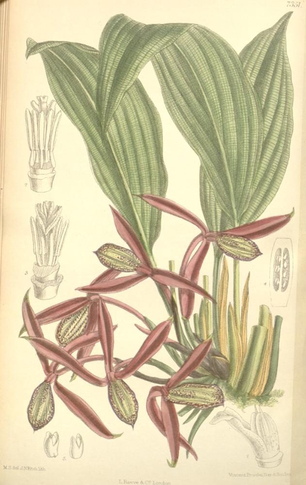 Illustration of Orchidantha maxillarioides (Orig. Lowia maxillarioides)